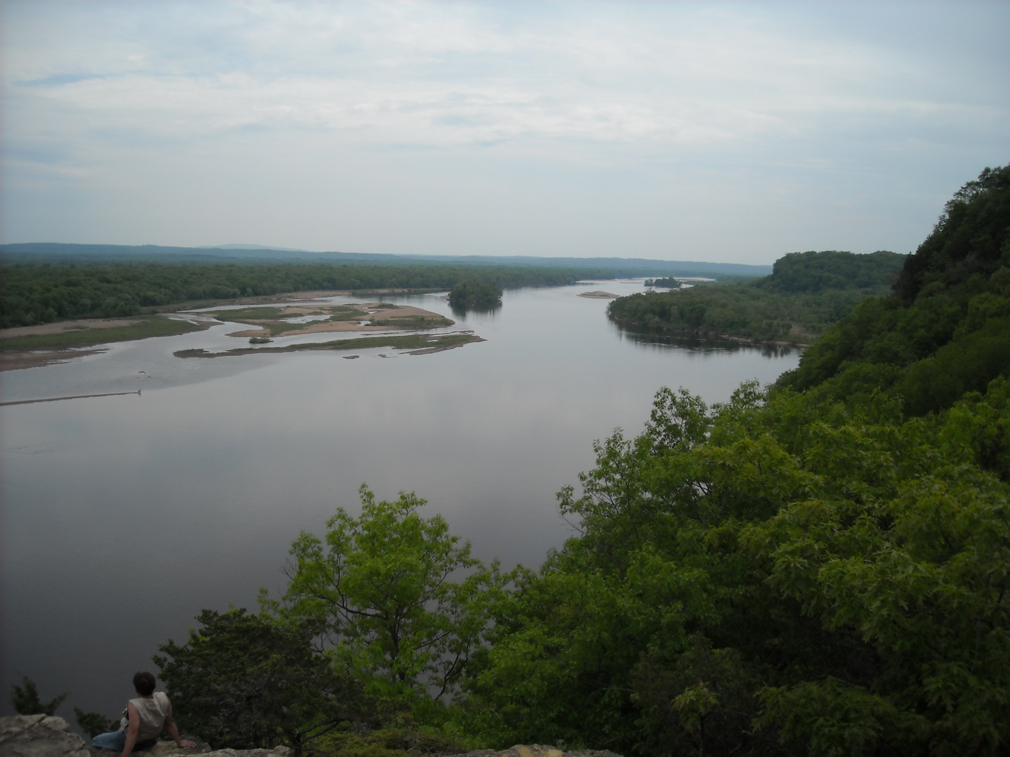 Wisconsin River form Ferry Bluff Hill 6 mile SW of Sauk City, Wisconsin, USA